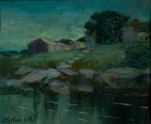 A painting by the artist Alethea Hill Platt (1860-1932), Shore Landscape at Dusk, owned by the ZImmerli Art Museum